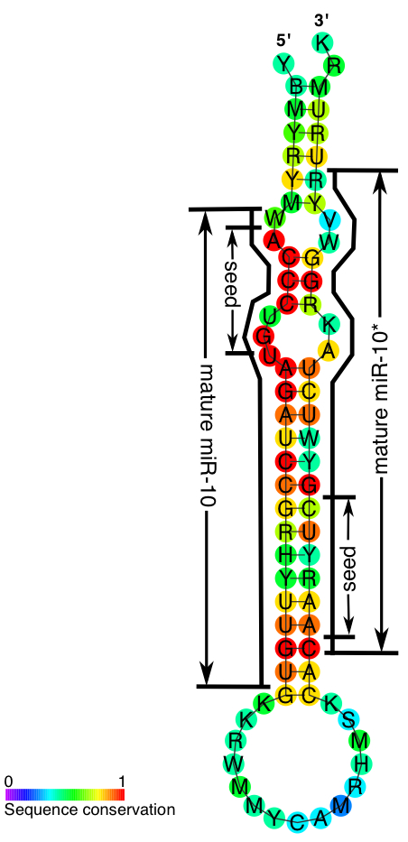 A consensus secondary structure for the microRNA miR-10.